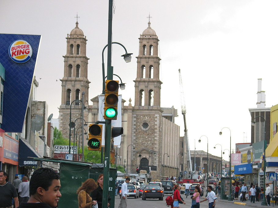 Busy street scene in Ciudad Juárez with Cathedral in the background.